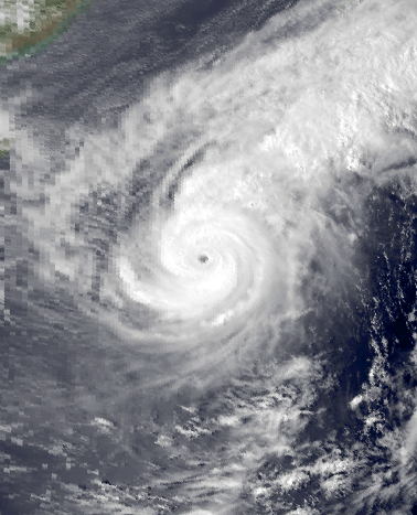 Typhoon Owen (Rosing) on September 26, 1979.